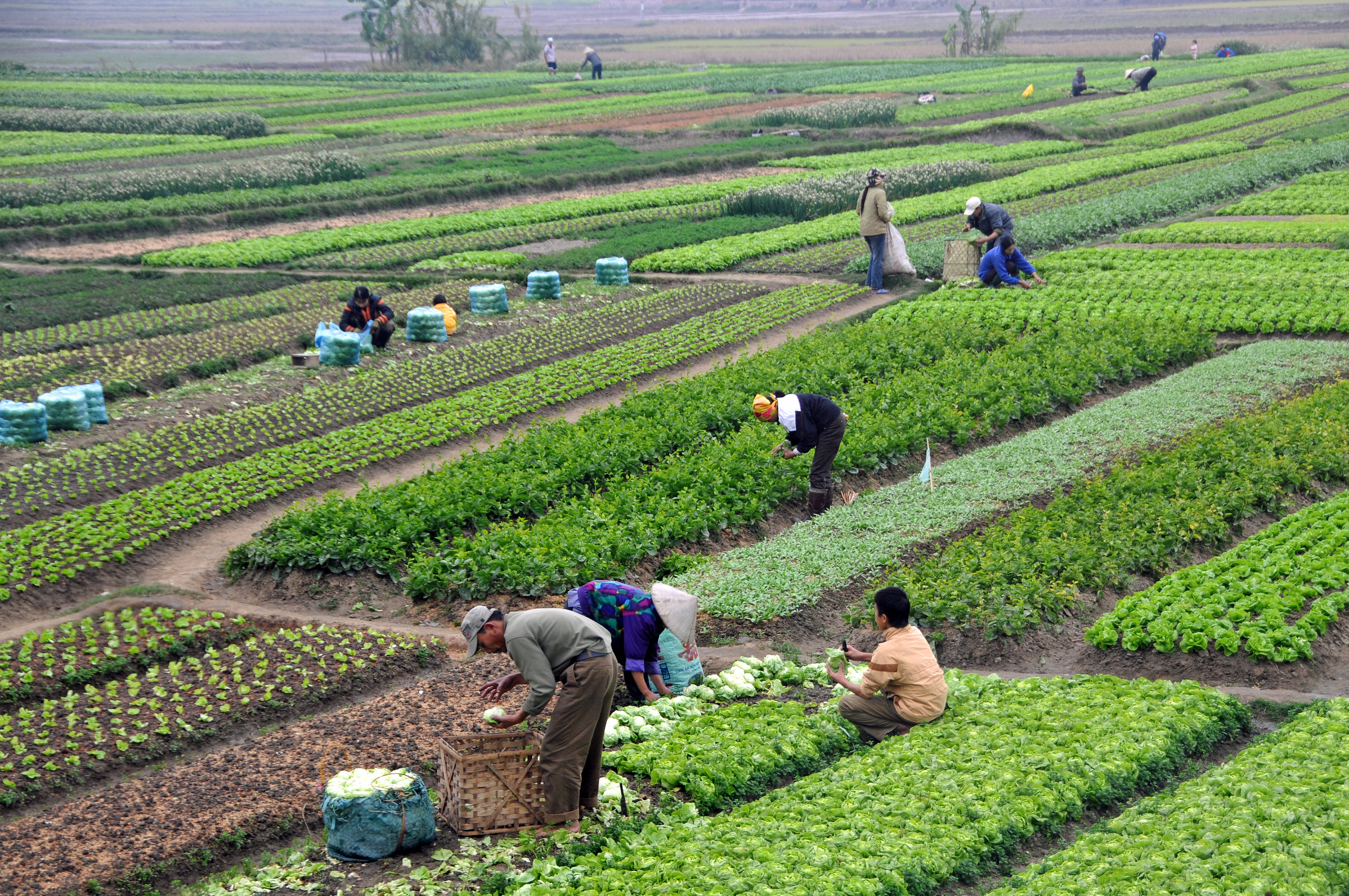 A large farm growing a variety of foods in Vietnam.